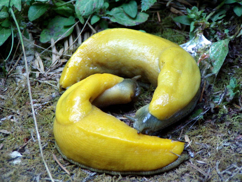 The mating dance of two banana slugs. This picture was taken in August 2003 in El Corte de Madera Creek Open Space Preserve in Northern California. Part of the Midpeninsula Regional Open Space District system.